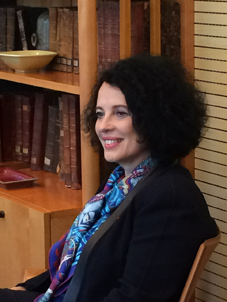 Amb. Sylvie Bermann at the French Embassy in China